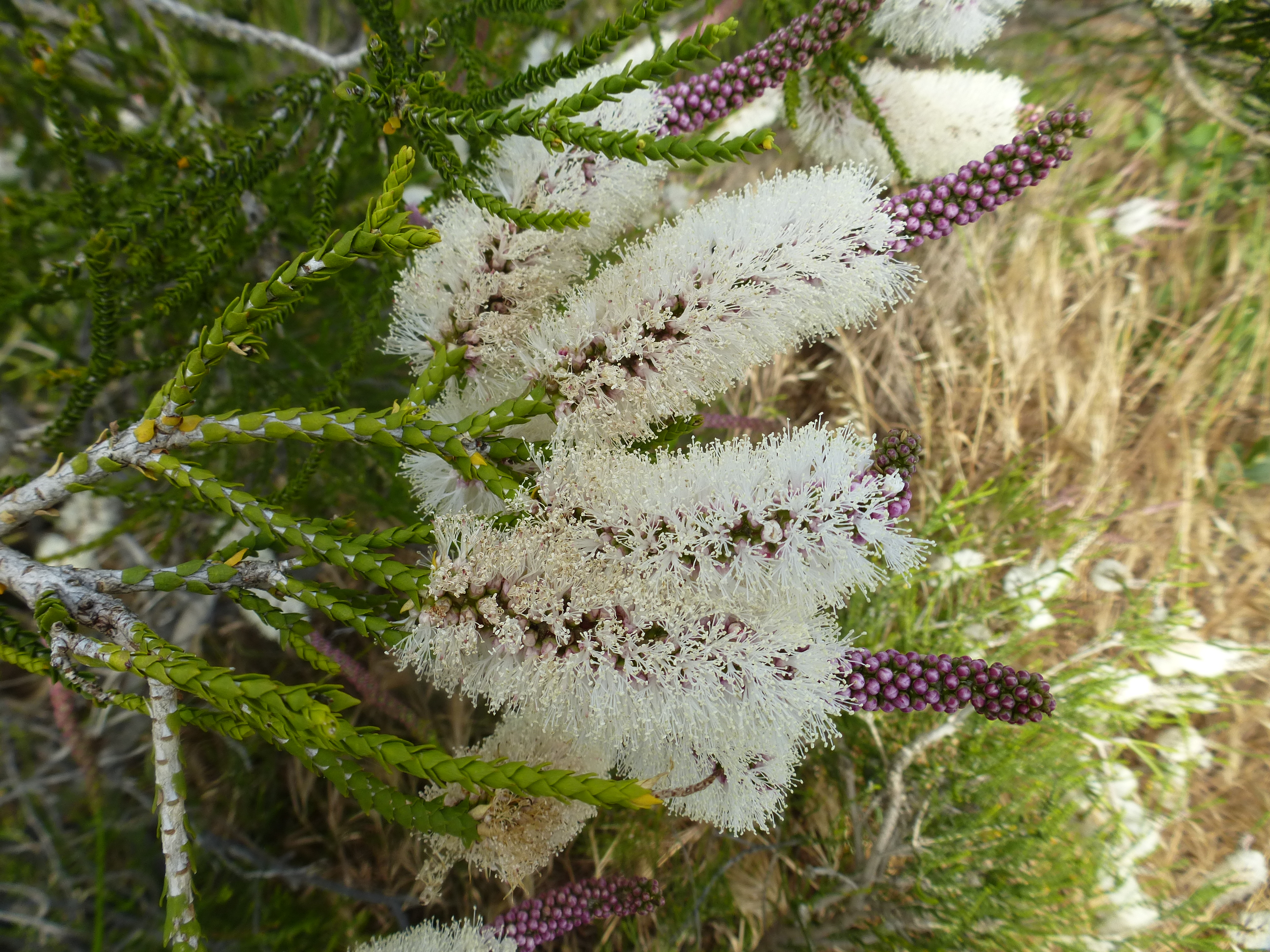 Melaleuca huegelii growing near Ledge Point